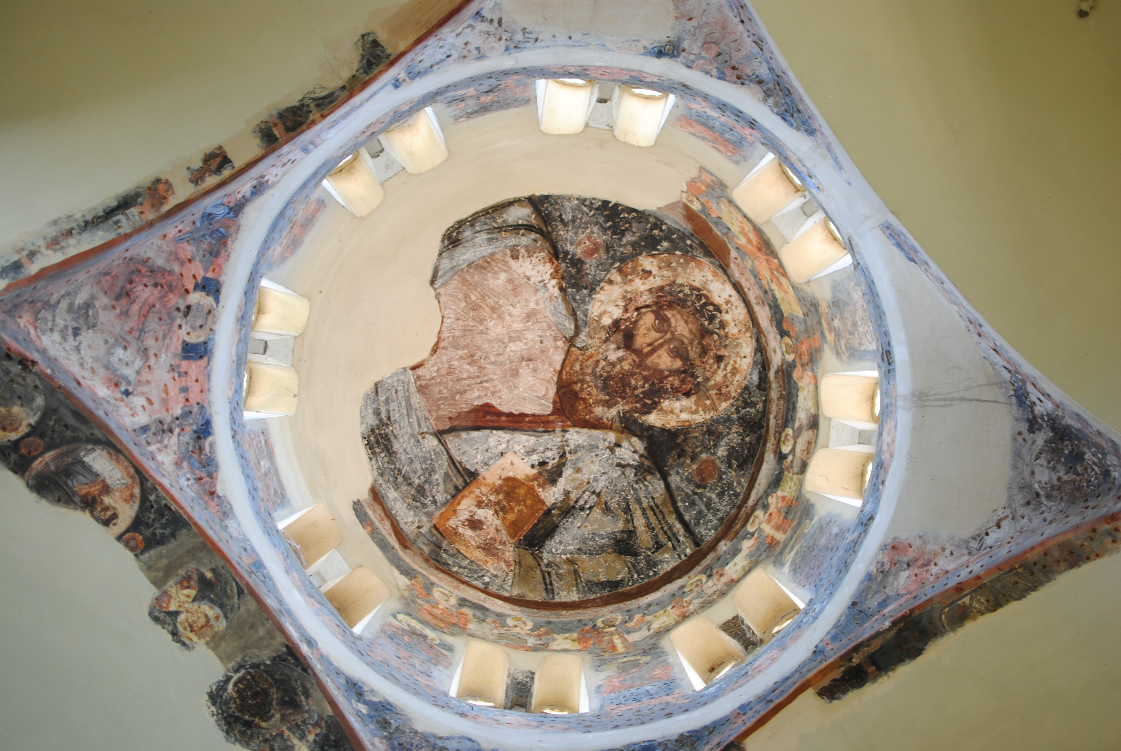 The roof of the Church of the Holy Apostles, also known as Agii Apostoli church, in the Ancient Agora of Athens June 2012.